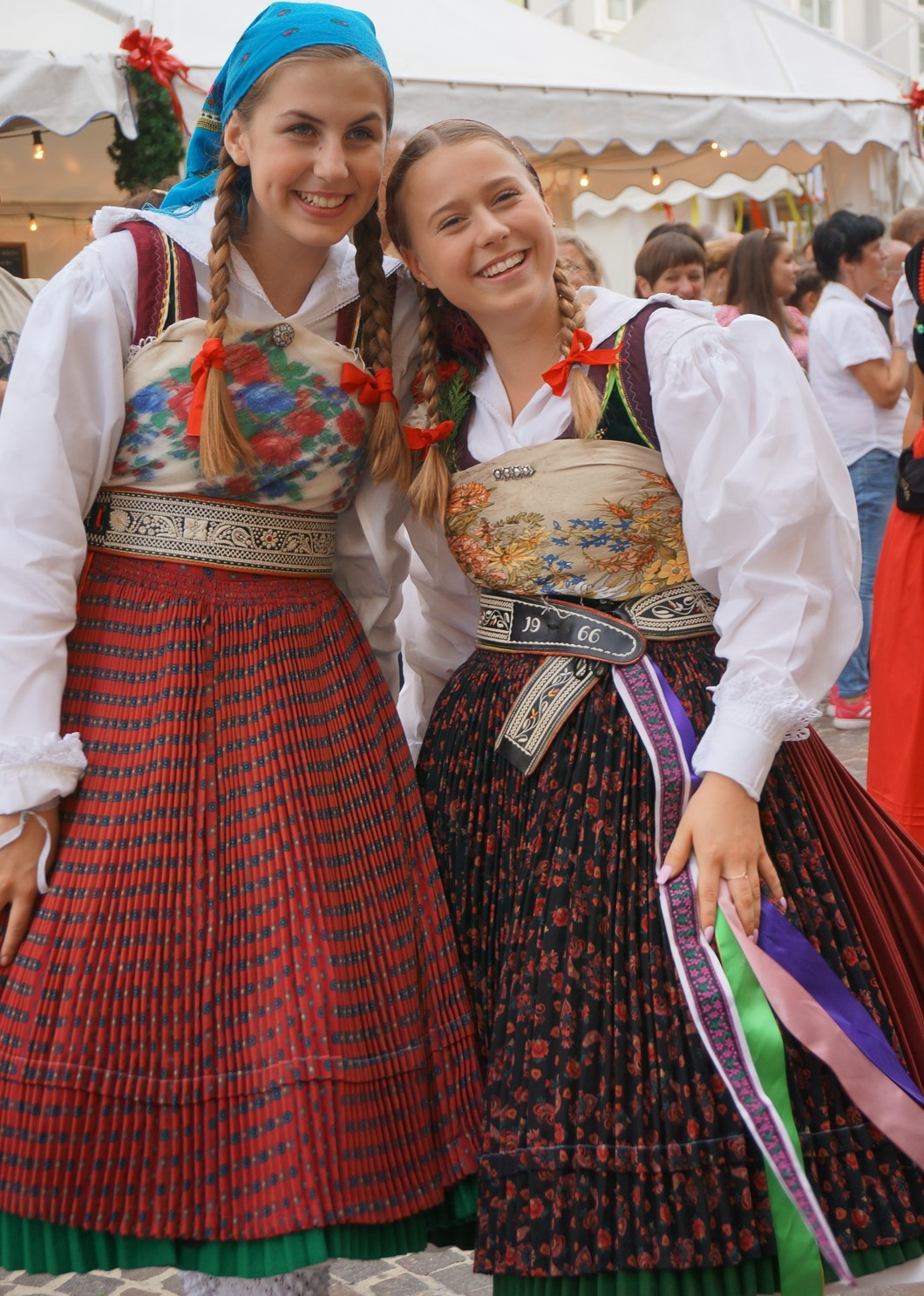 Gailtaler women in their typical women's costume, Gailtal, Carinthia, Austria, European Union